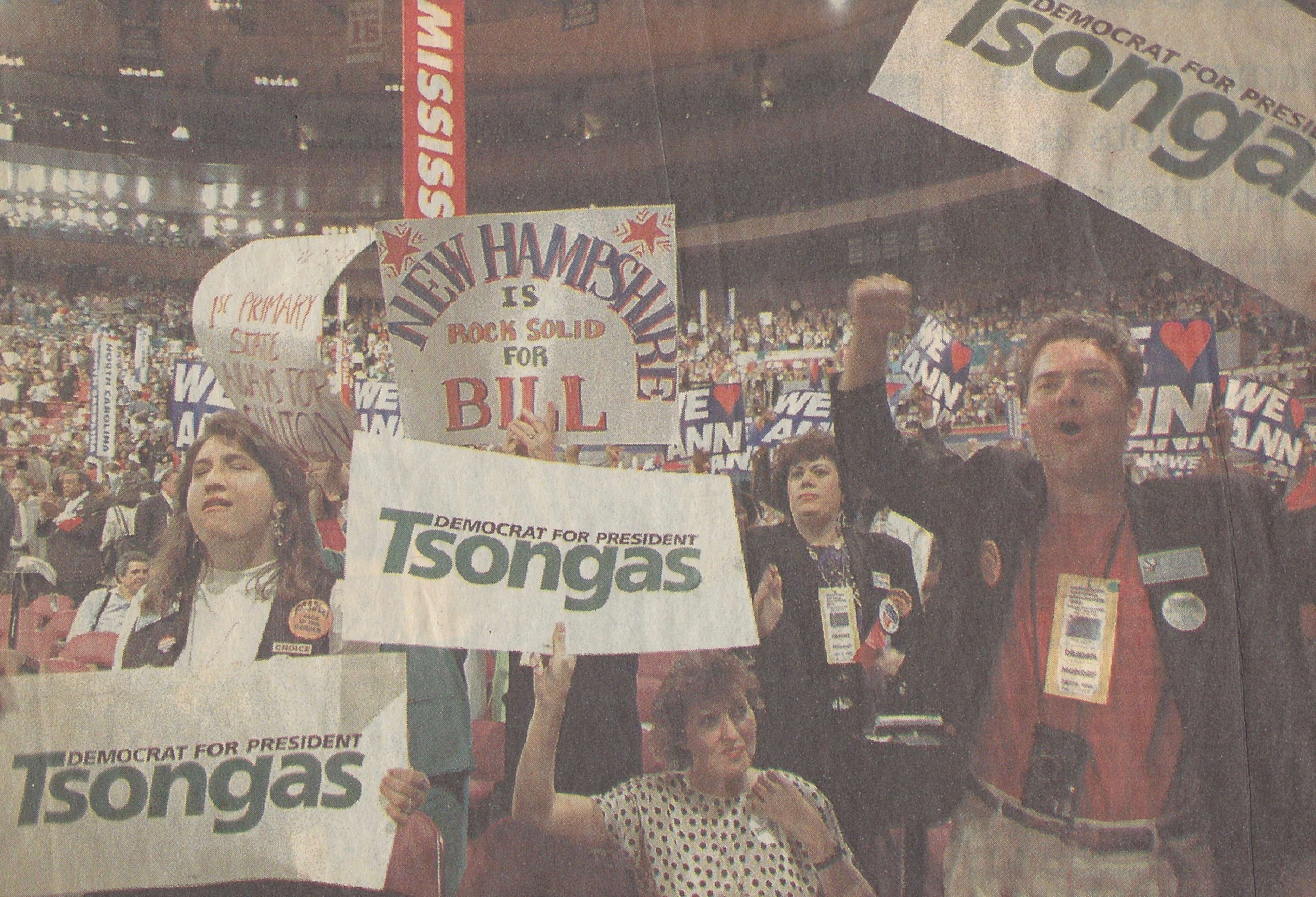 A picture of New Hampshire delegates for Tsongas.